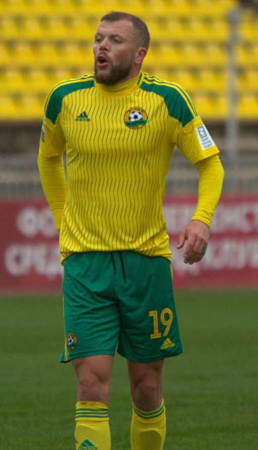 Oleksiy Gai with FC Kuban Krasnodar in a game against FC Neftekhimik Nizhnekamsk.